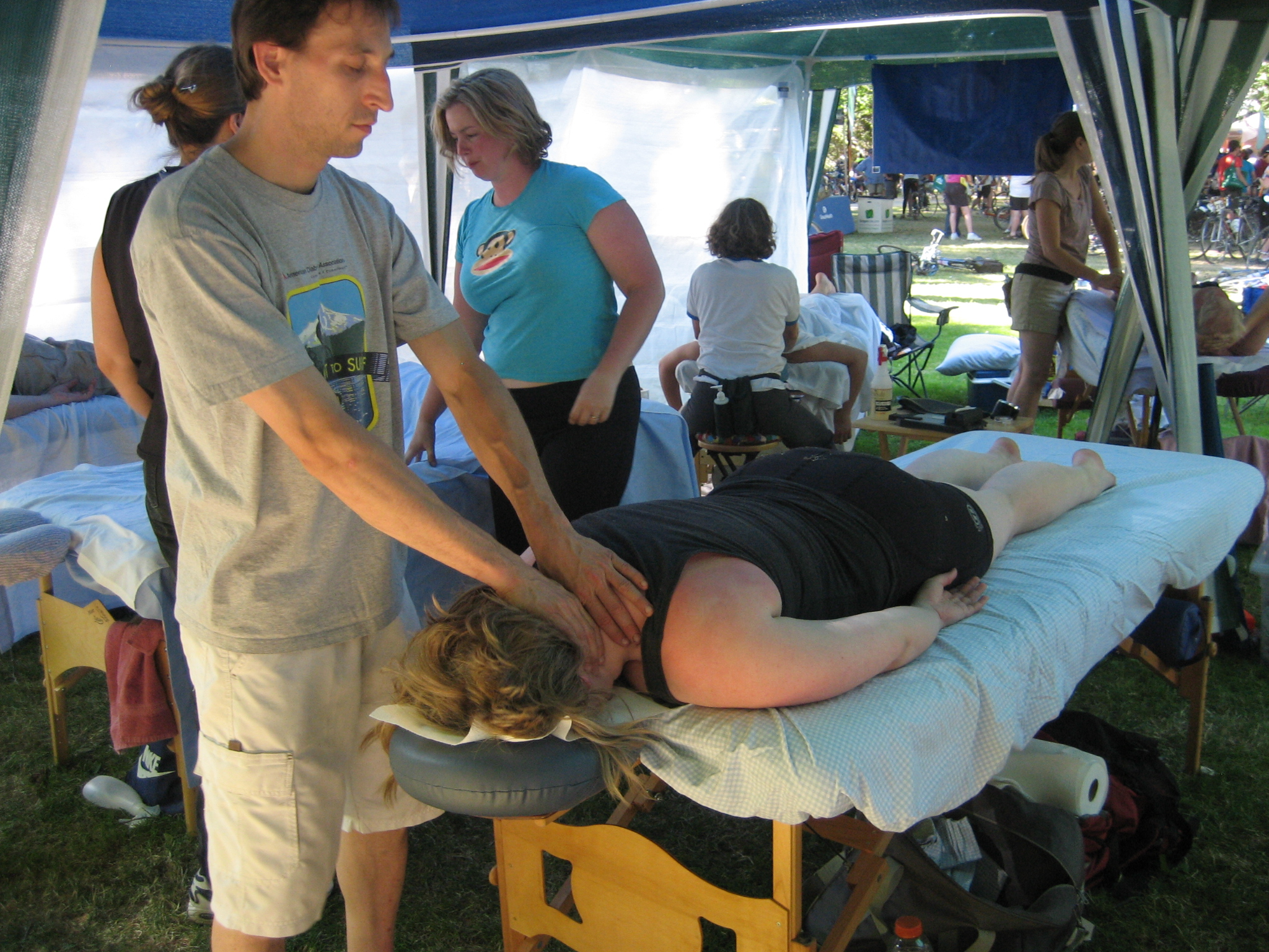 A woman receives a massage under an outdoor tent.